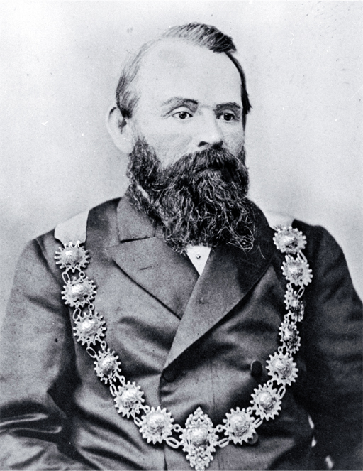 Born in Germany, Ruddenklau emigrated to New Zealand from London in 1857. He established a business in the Triangle Centre as a baker and confectioner and later built and ran the City Hotel. He also built the first grain stores at Addington and worked as a miller and corn merchant. He was a Christchurch city councillor 1866, 1873-1877 and mayor 1882-1883.